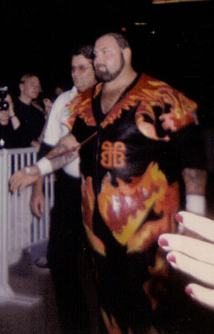 Bam Bam Bigelow at a WWF event in 1995